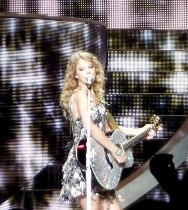 Country pop singer Taylor Swift performing on her Fearless Tour in Los Angeles, California